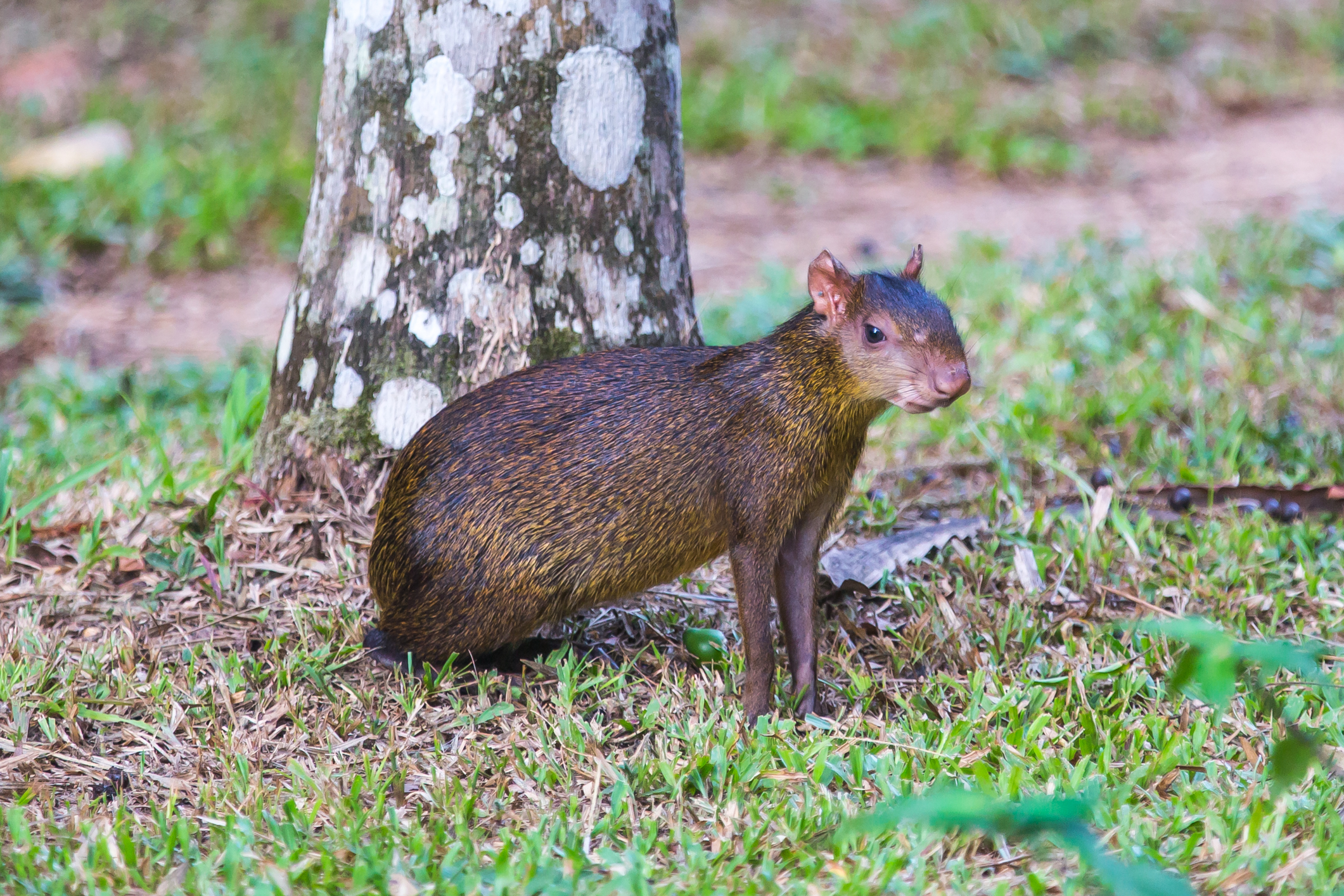 on the Rio Tambopata…Agouti